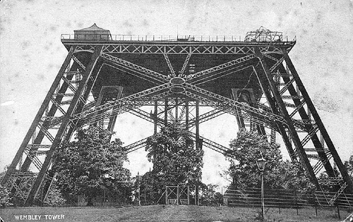 The first and only completed stage of Watkin's Wembley Tower in Wembley Park, London, UK. Watkin's Tower, designed to rival the Eiffel Tower in Paris, was never completed and the project failed. This photograph was taken sometime between the completion of the first level in 1899 and its demolition in 1904.